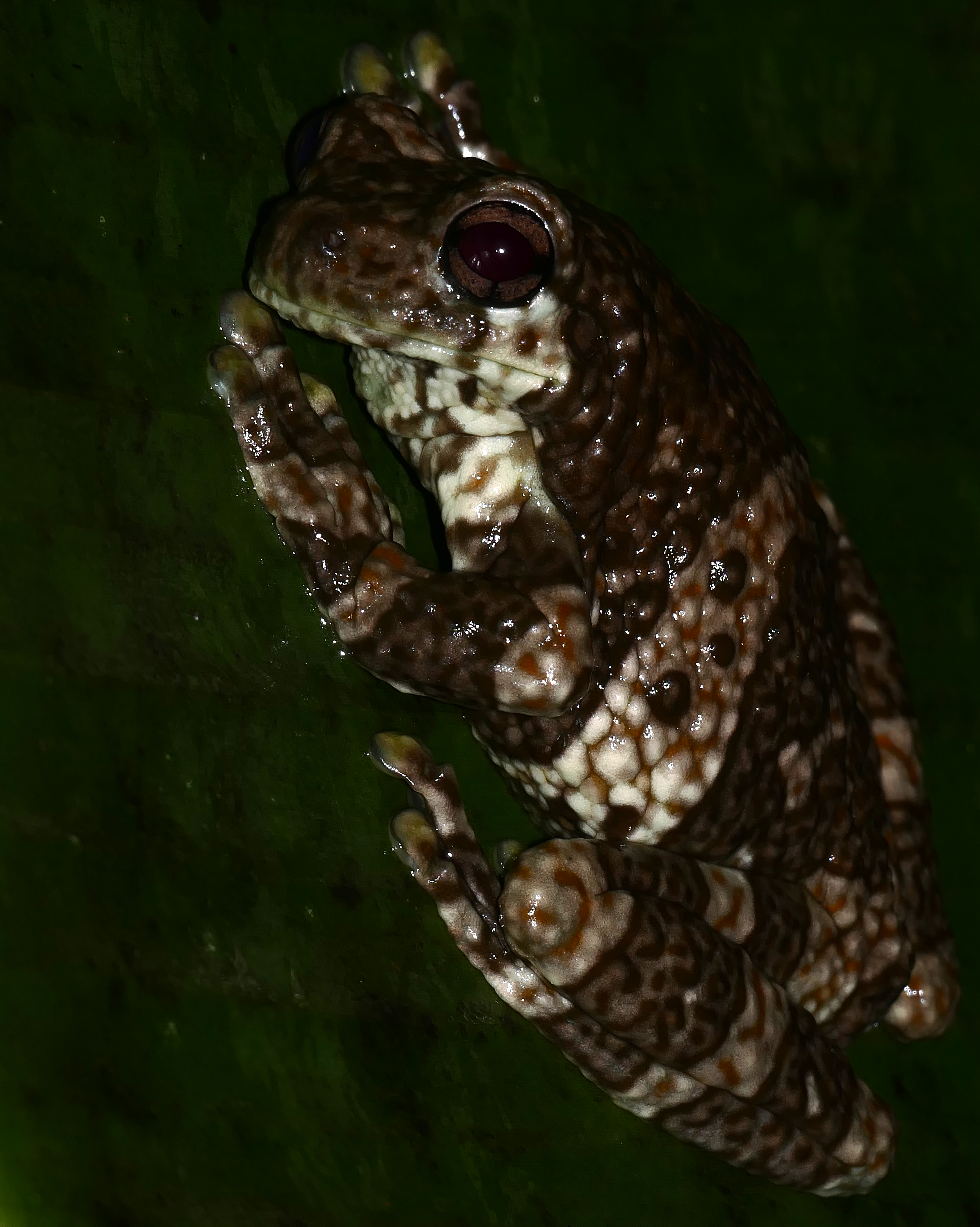 D6 Route de Kaw, Roura, French Guyana, FRANCE